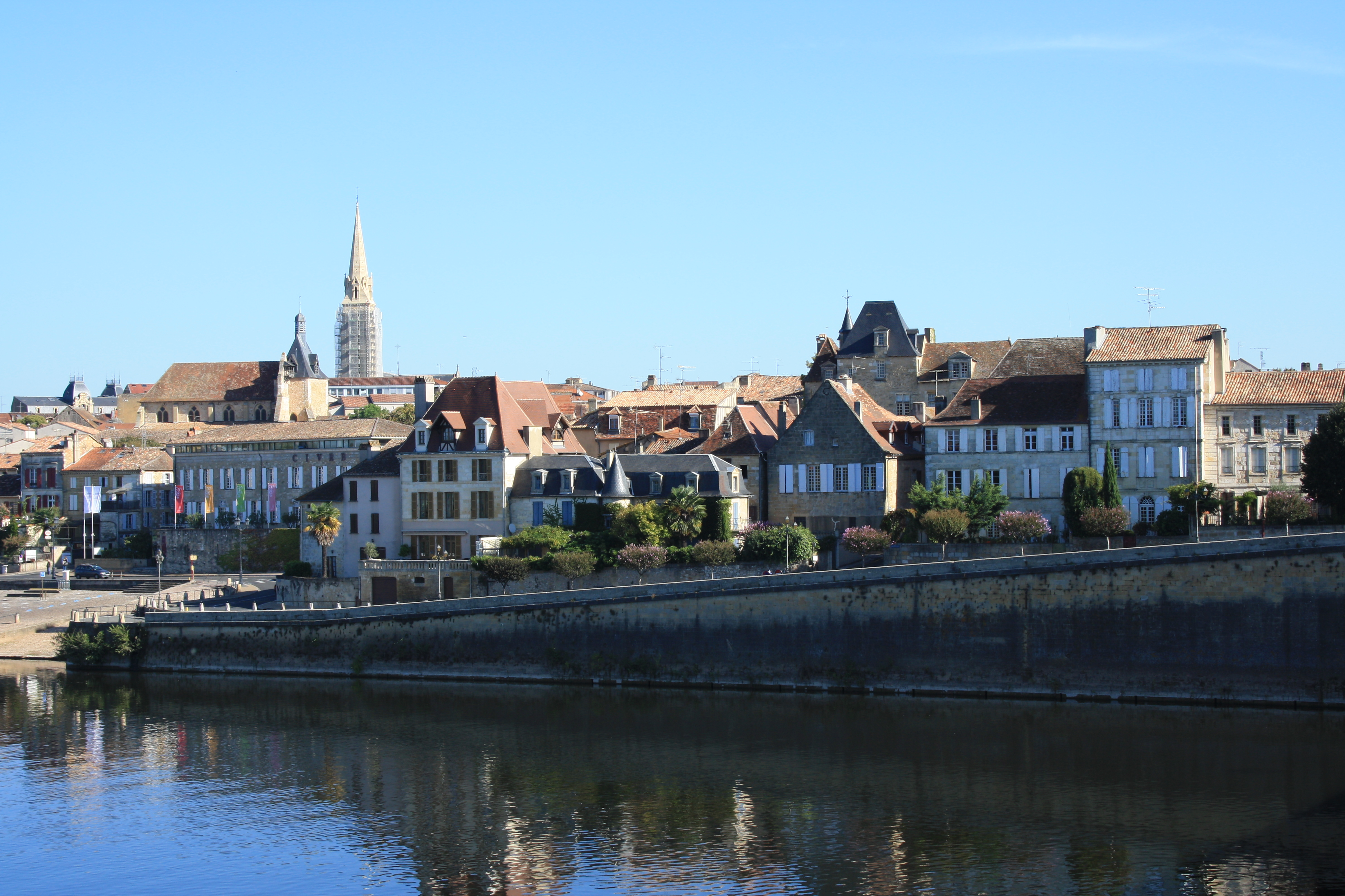 View from Old bridge in Bergerac, Dordogne, France.